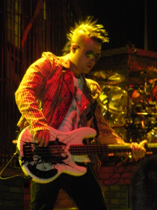 Johnny Christ performing at Rockstar Uproar Fesitval in Council Bluffs, IA